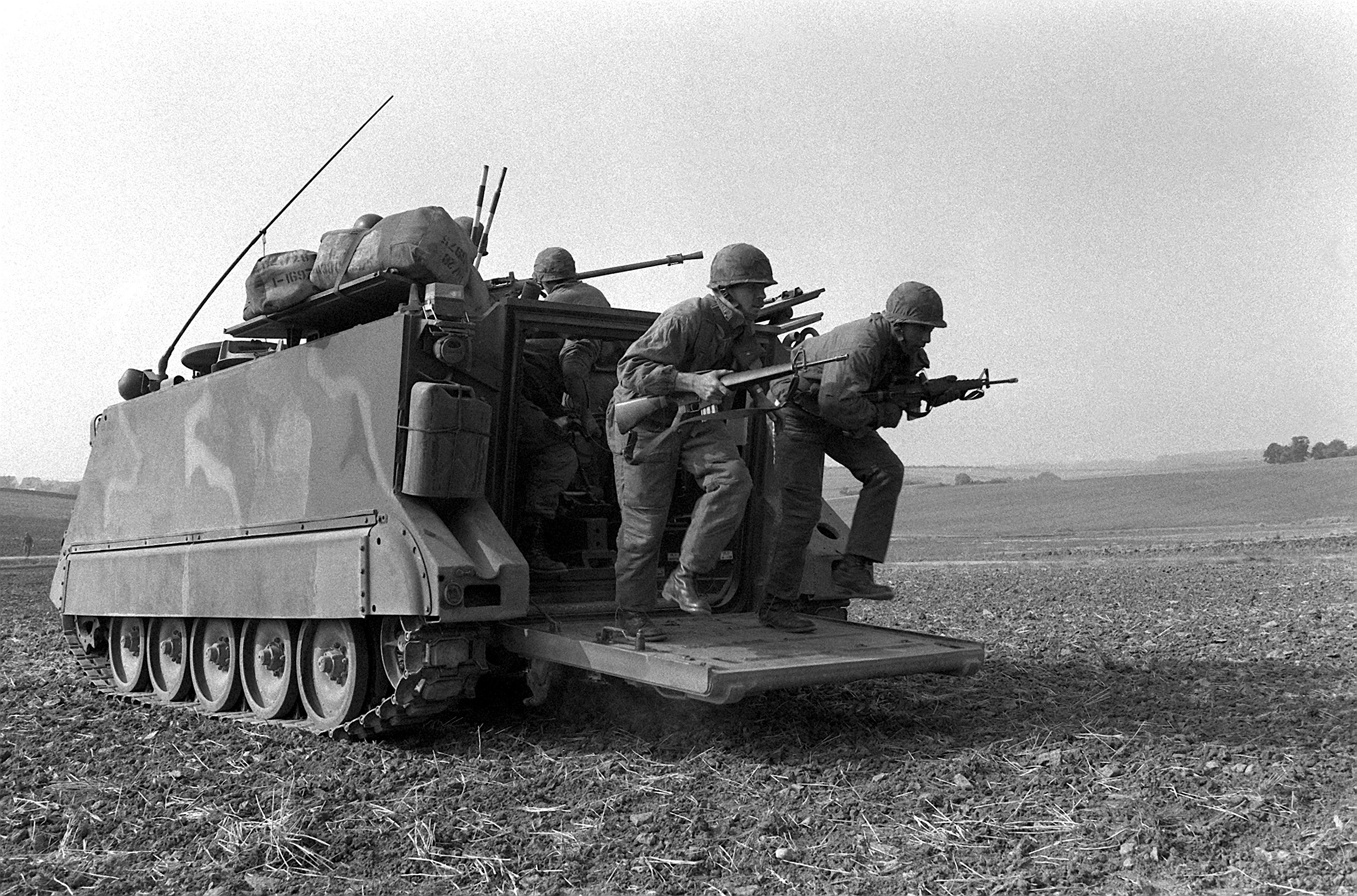 Members of Co. B, 1ST Bn., 28th Infantry, charge out the back of an armored personnel carrier during Exercise Reforger '82 in West Germany.